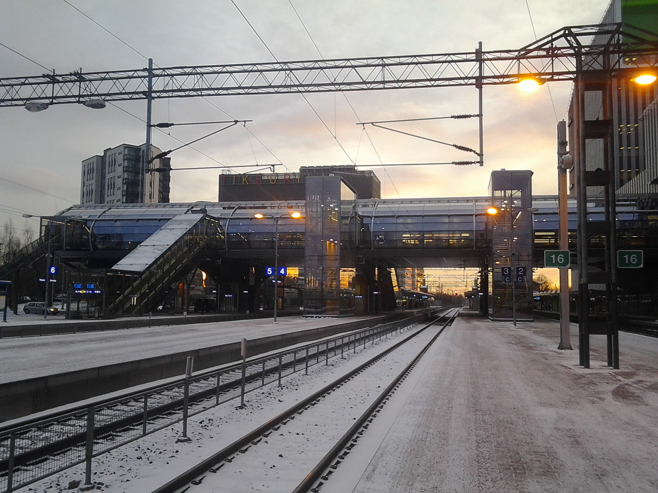 Tikkurila railway station.